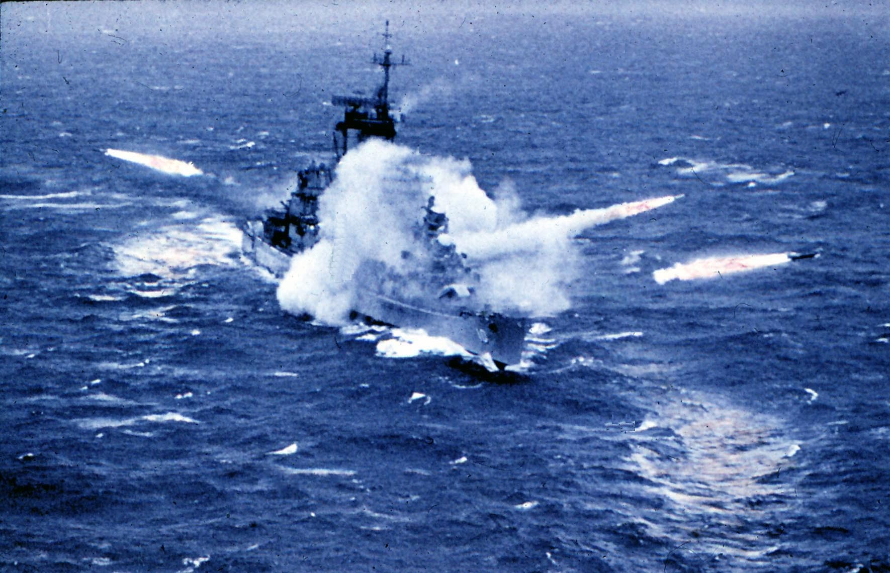 The U.S. Navy guided missile cruiser USS Albany (CG-10) firing two RIM-8 Talos missiles (fore and aft) and a RIM-24 Tartar missile (port amidships) simultaneously, off the Virginia Capes in the Atlantic Ocean on 30 January 1963.